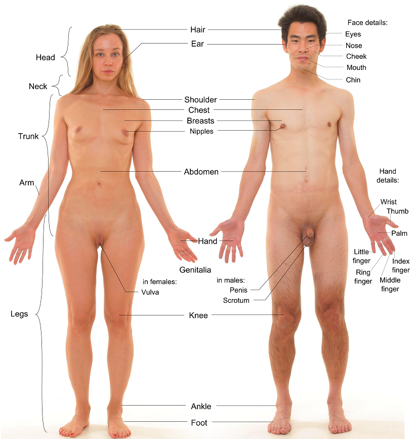 Model name: (preferred not to be stated) At time of photograph: Age: 40 Height: 166 cm Weight: 47 kg BMI: 17.1 Ornaments: Ear piercing, ring on left ring finger (not in retouched images), nail polish on toe nails. There is some tilting of the upper trunk towards the left of the body, which may be positional or anatomical.